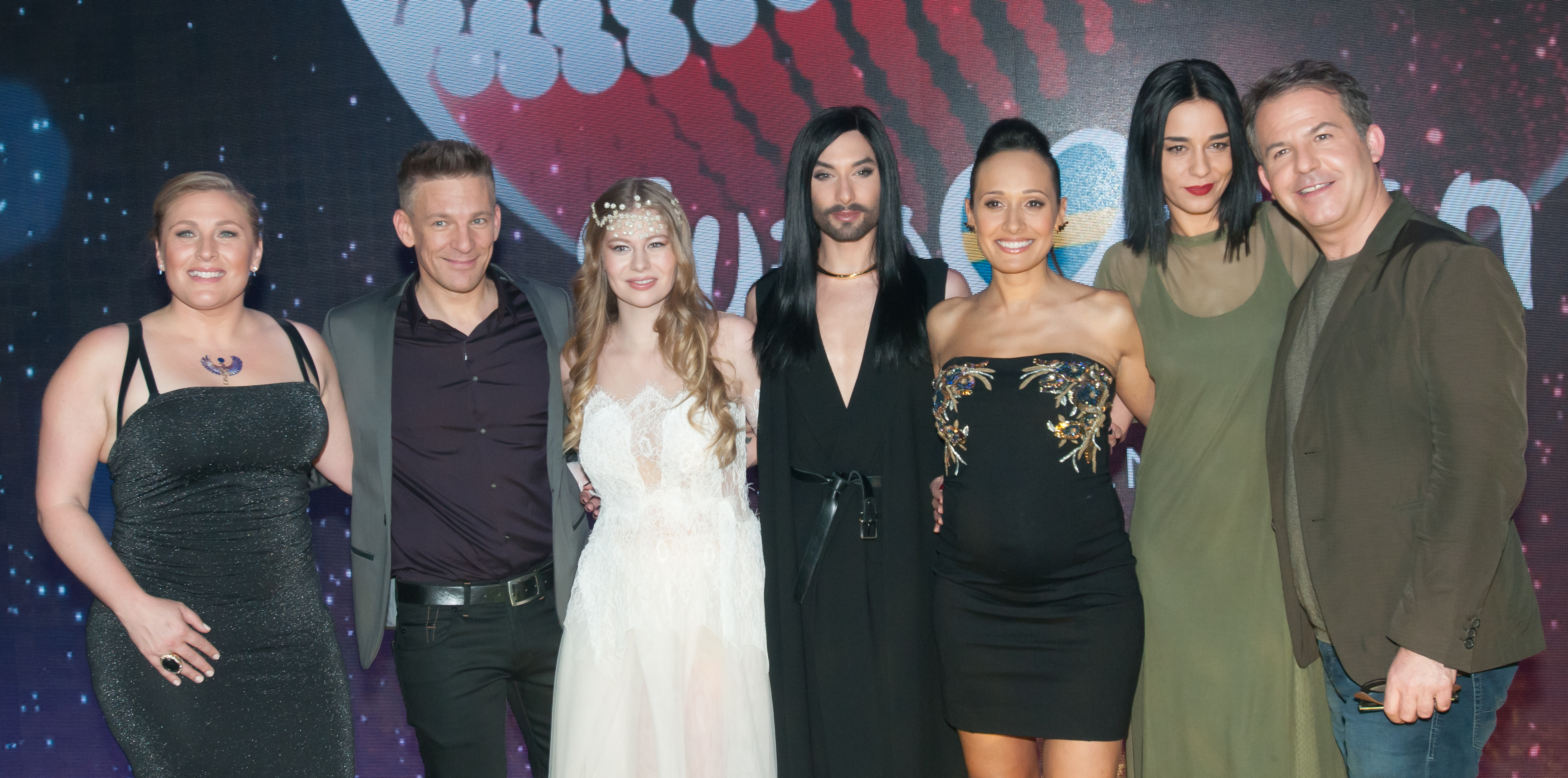 ESC 2016 National Final Austria